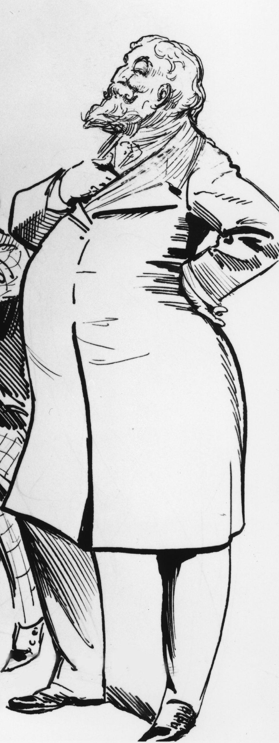 Extracted from Arthur William à Beckett; Edwin Linley Samborne; Thomas Anstey Guthrie, by Harry Furniss (died 1925).